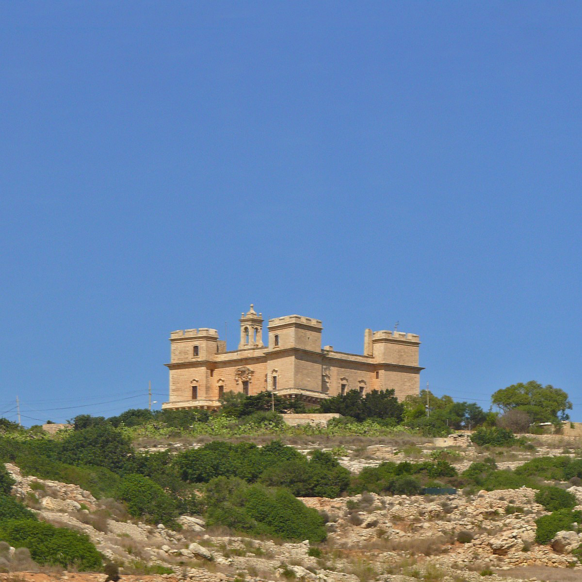 Selmun Palace near Mellieħa, Malta